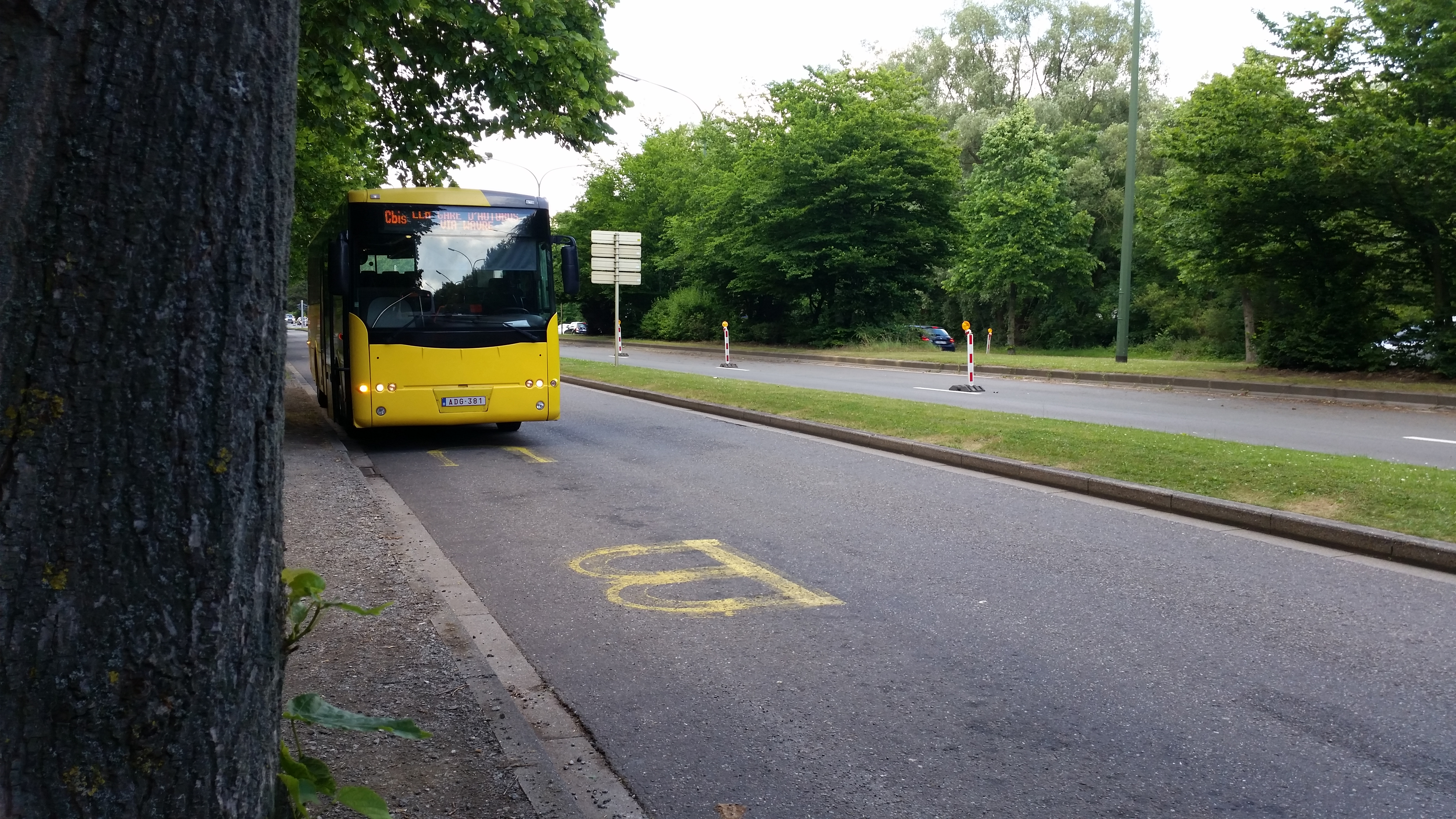 Bus of TEC line C bis Louvain-la-Neuve - Wavre - Kraainem - Woluwe in a bus stop on Boulevard de la Woluwe.